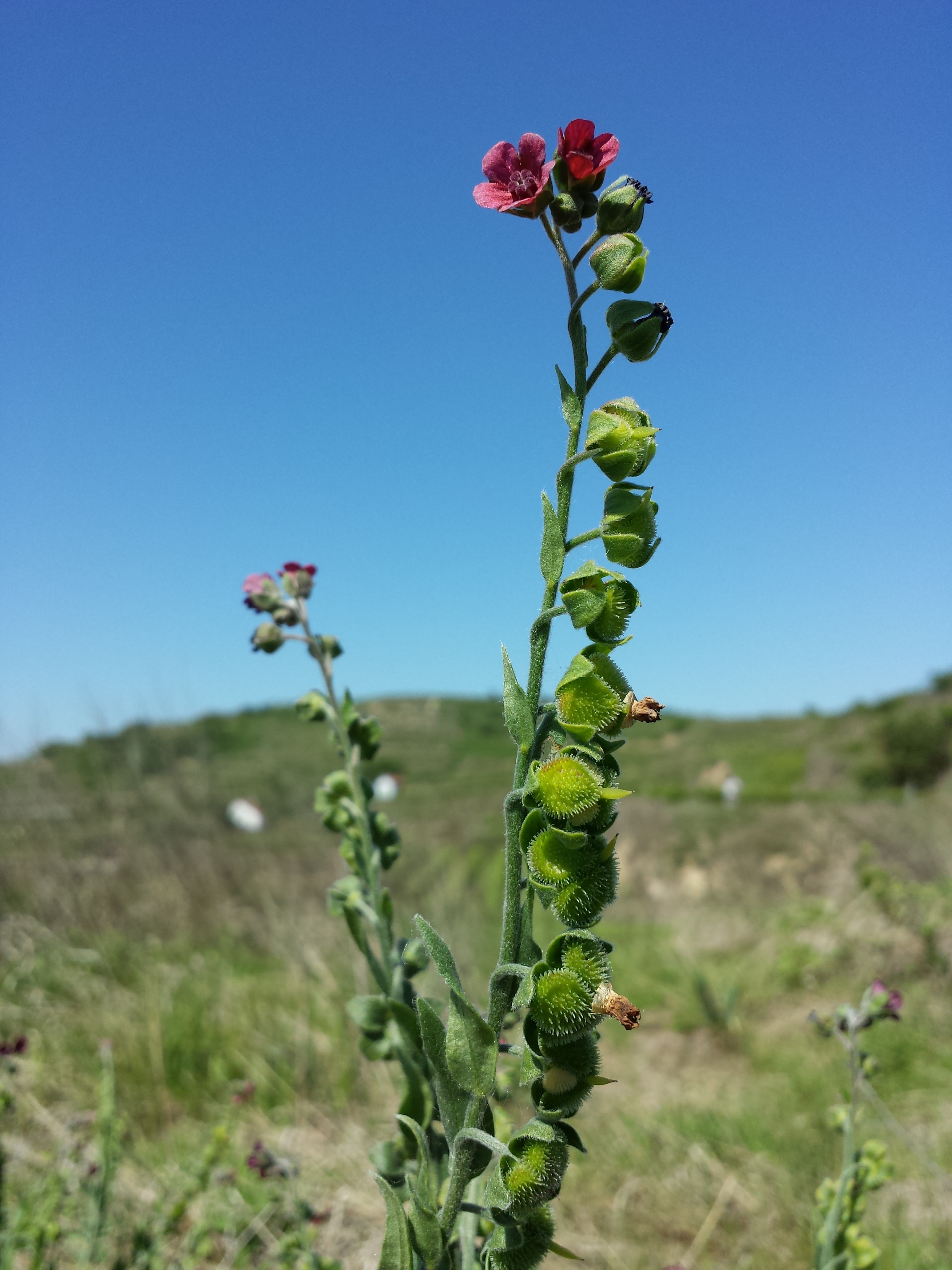 Florescence Taxon: Cynoglossum officinale (sensu Fischer et al. EfÖLS 2008 ISBN 978-3-85474-187-9; det. M. A. Fischer 2014-06-07) Location: "Auf der Haid" nearby Gedersdorf, district Krems-Land, Lower Austria - ca. 230 m a.s.l. Habitat: fallow land